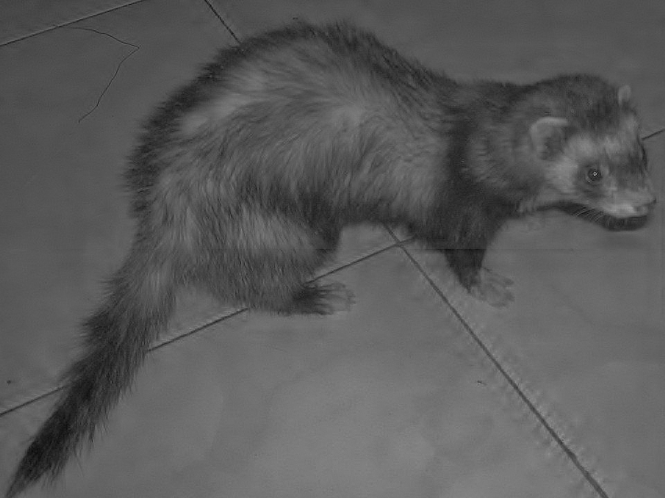 Ferret 1944